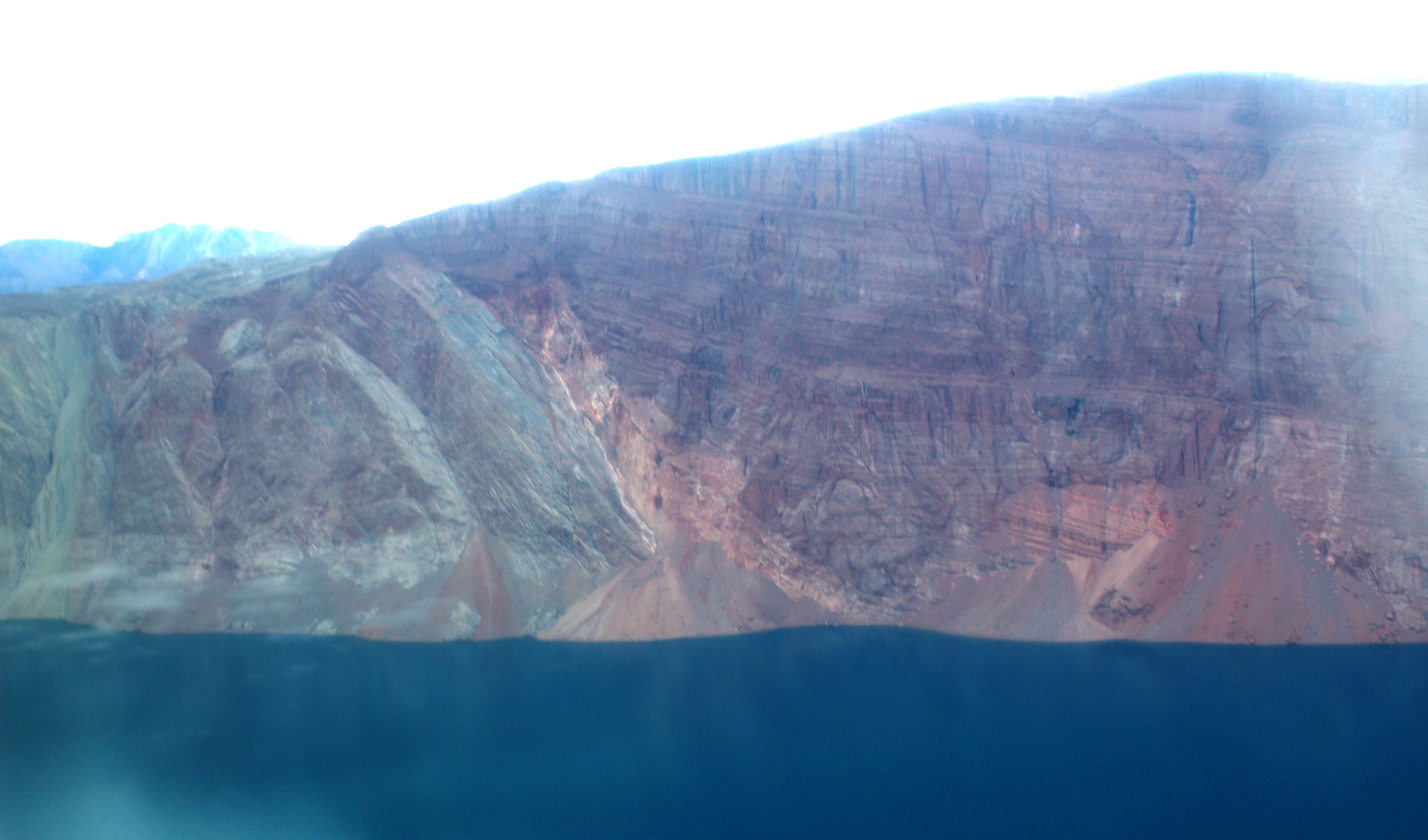 Southwestern side of Ella Island, East-Greenland. Onlap of devonian sandstone (right) on folded cambrian to ordivocian rocks (left).